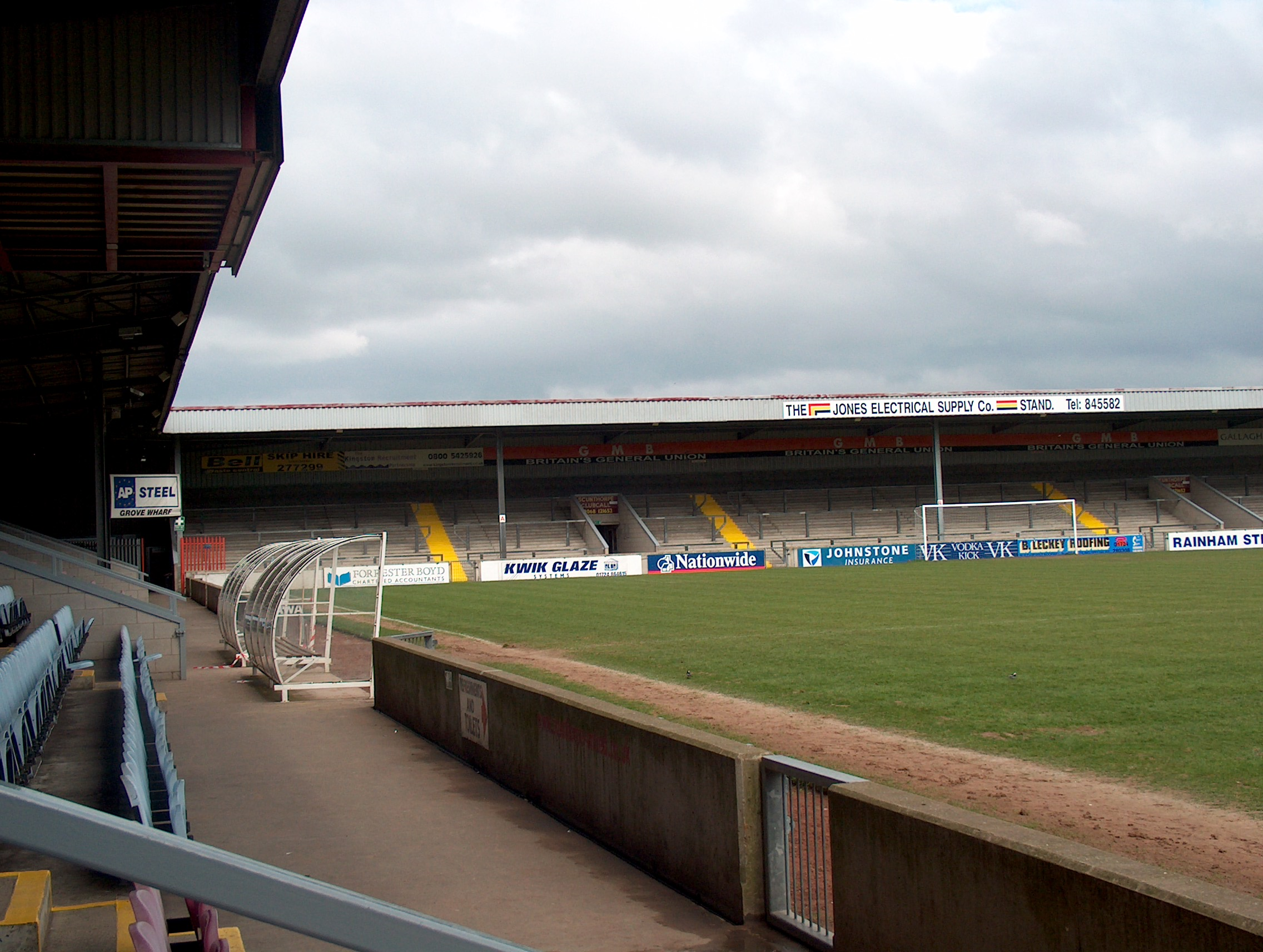 Glanford Park